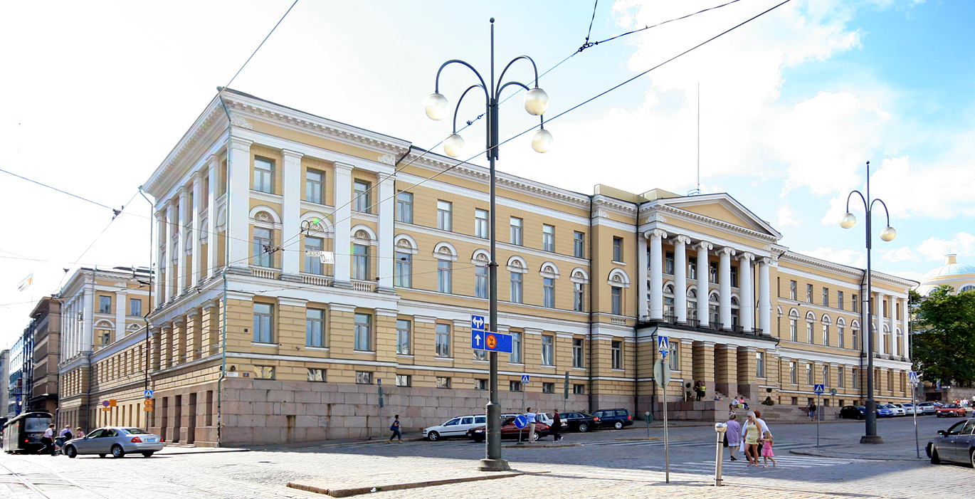 University of Helsinki main building. Built 1832. Architect: Carl Ludvig Engel.